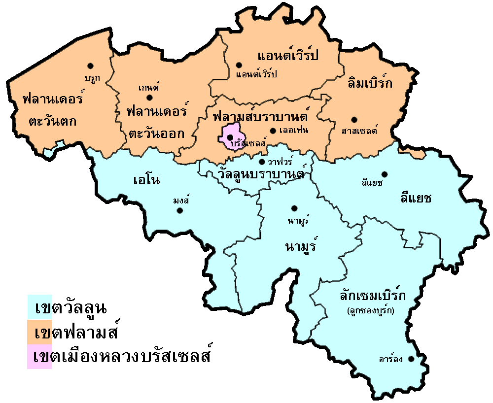 Maps of Belgian provinces, labelled in Thai.